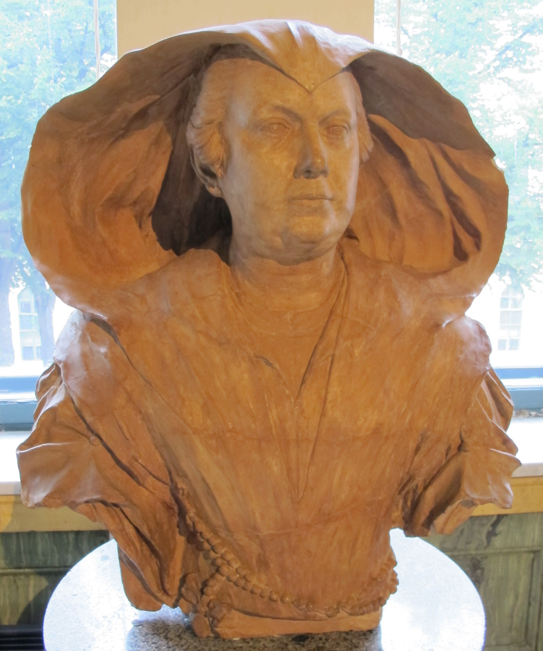 Alessandro Algardi (1598–1654) Alternative names L'AlgardeDescriptionItalian sculptor and architectDate of birth/death 31 July 1598 10 June 1654Location of birth/death Bologna RomeAuthority control : Q336798 VIAF: 76326555 ISNI: 0000 0003 6943 4694 ULAN: 500024200 LCCN: n85223975 WGA: ALGARDI, Alessandro WorldCat creator QS:P170,Q336798 Ritratto di olimpio pamphili